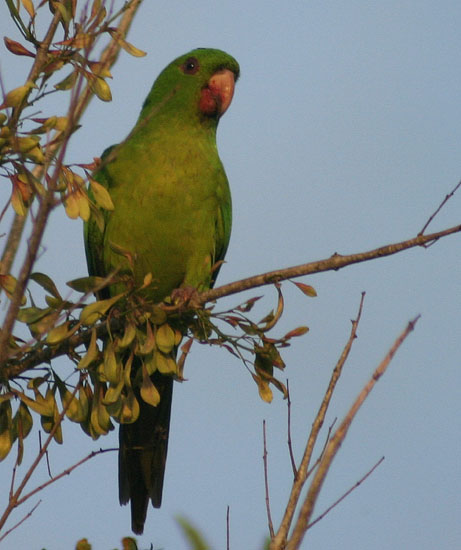 A Green Parakeet in a tree in San Benito, South Texas, USA.